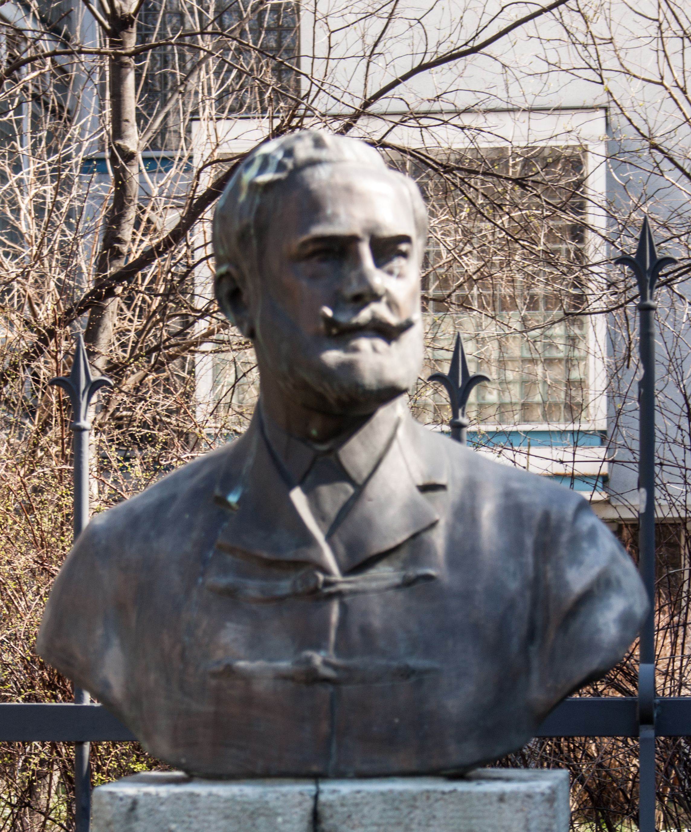 Bust of Antal Péch